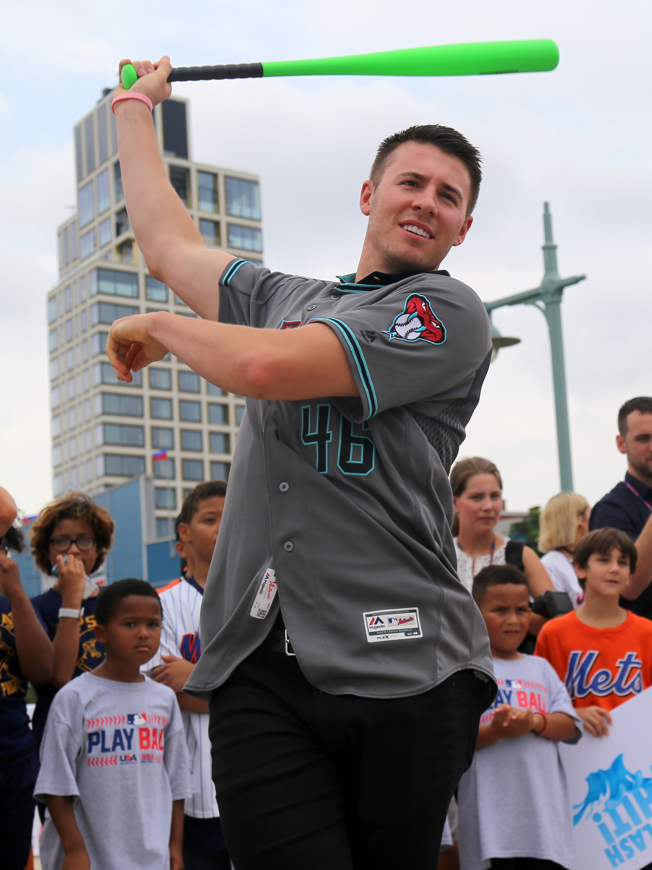 Patrick Corbin